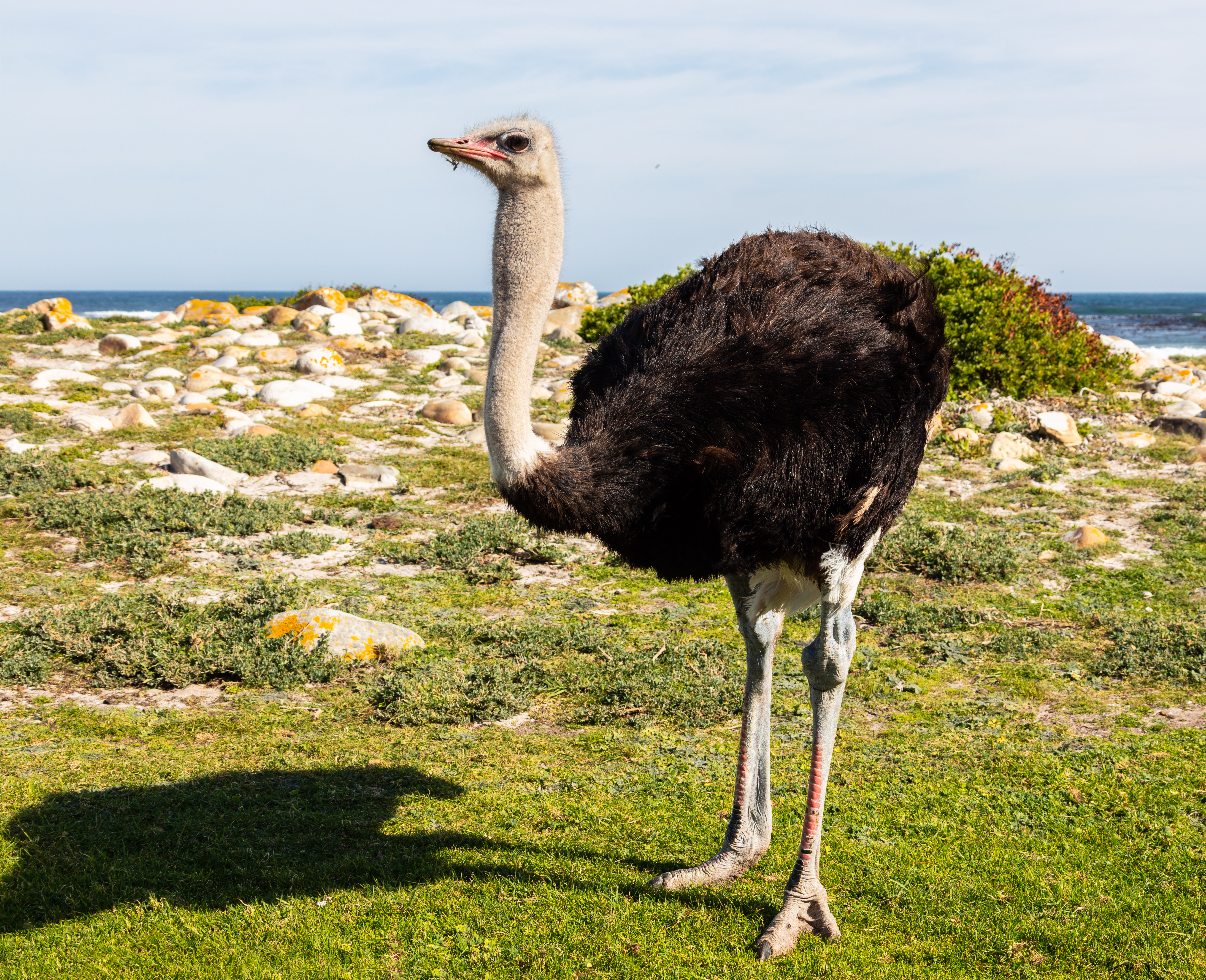 South African ostrich (Struthio camelus australis), Cape of Good Hope, South Africa